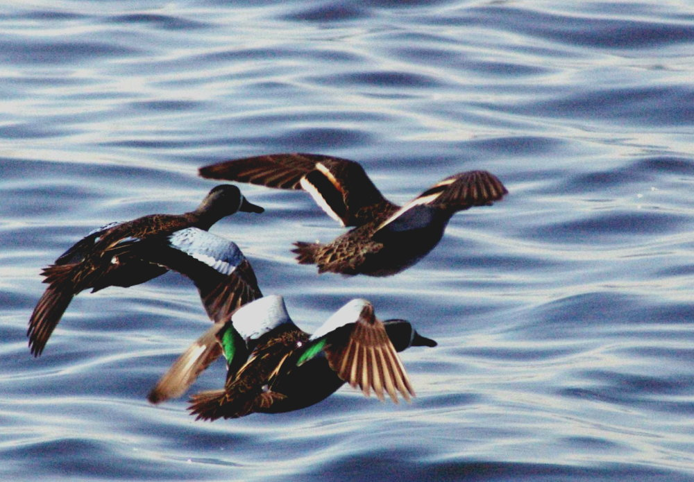 Males' wings have prominent blue bands on leading edges and trailed by irridescent green. photo by Raymond Coveney, March 2006 @ Squaw Creeek National Wildlife Refuge, Mound City MO